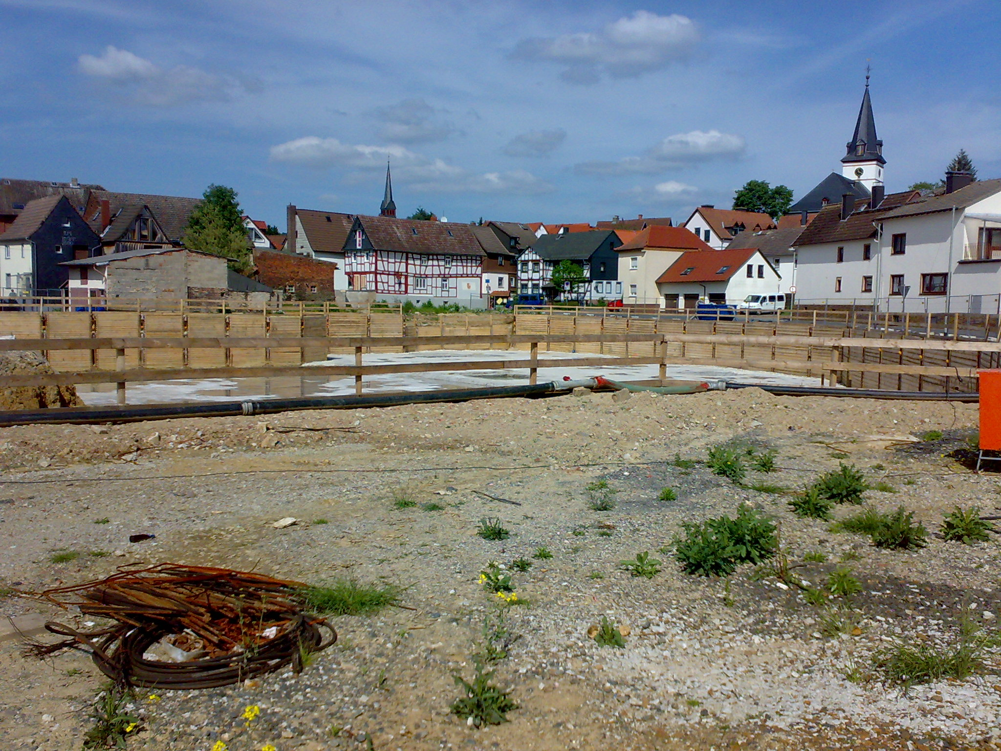 New center of Wehrheim, Hesse, Germany